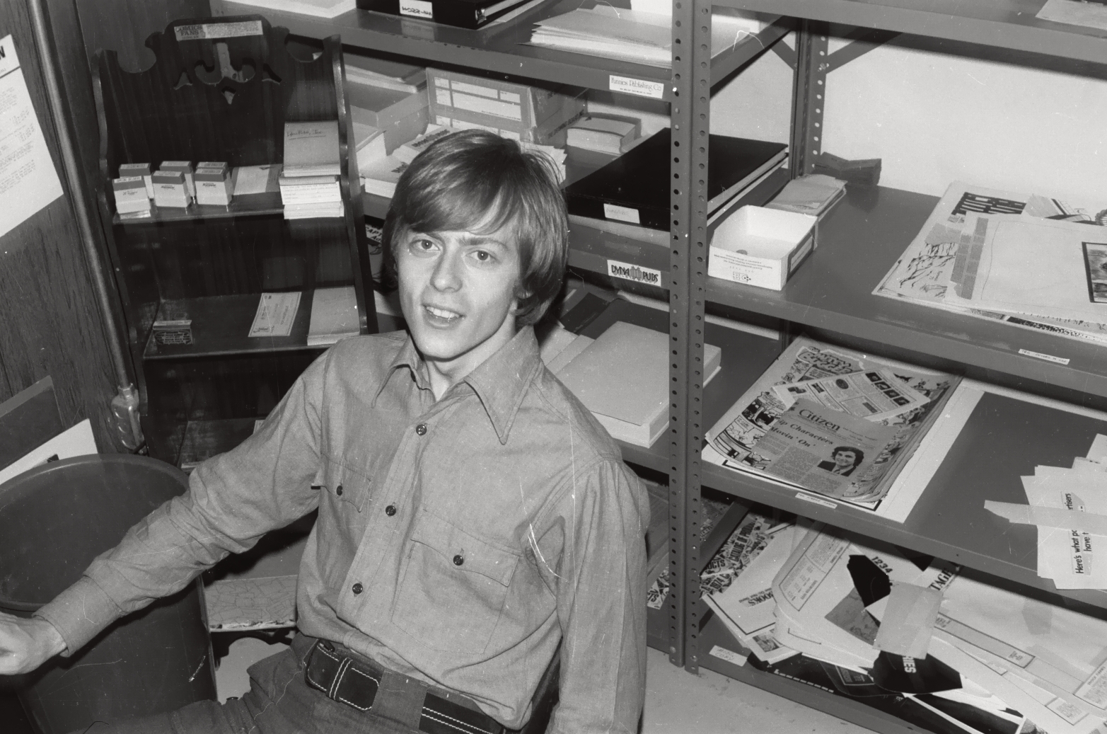 Alan Light, 1975. DynaPubs office in parents basement.